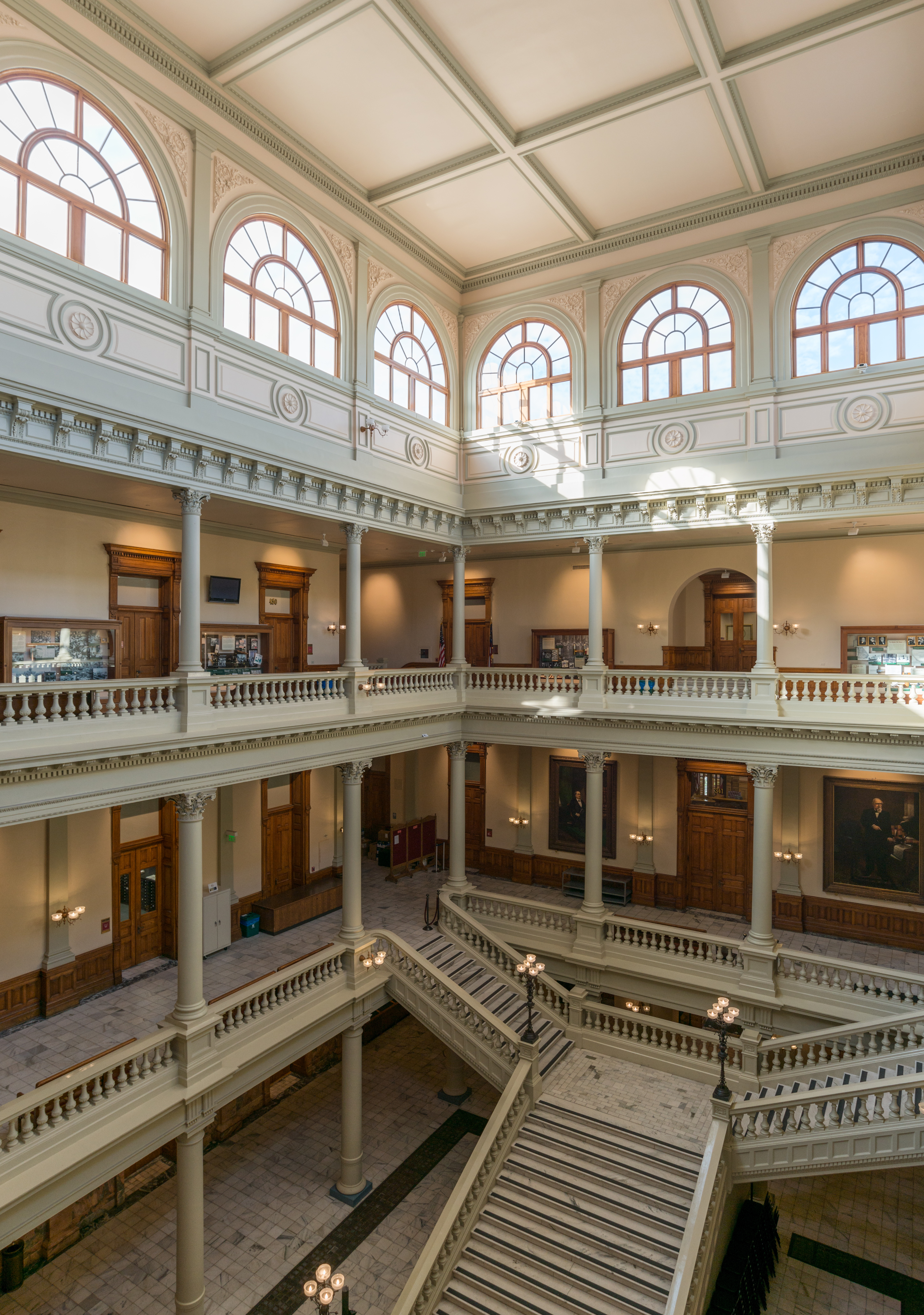 The north atrium of the Georgia State Capitol, Atlanta